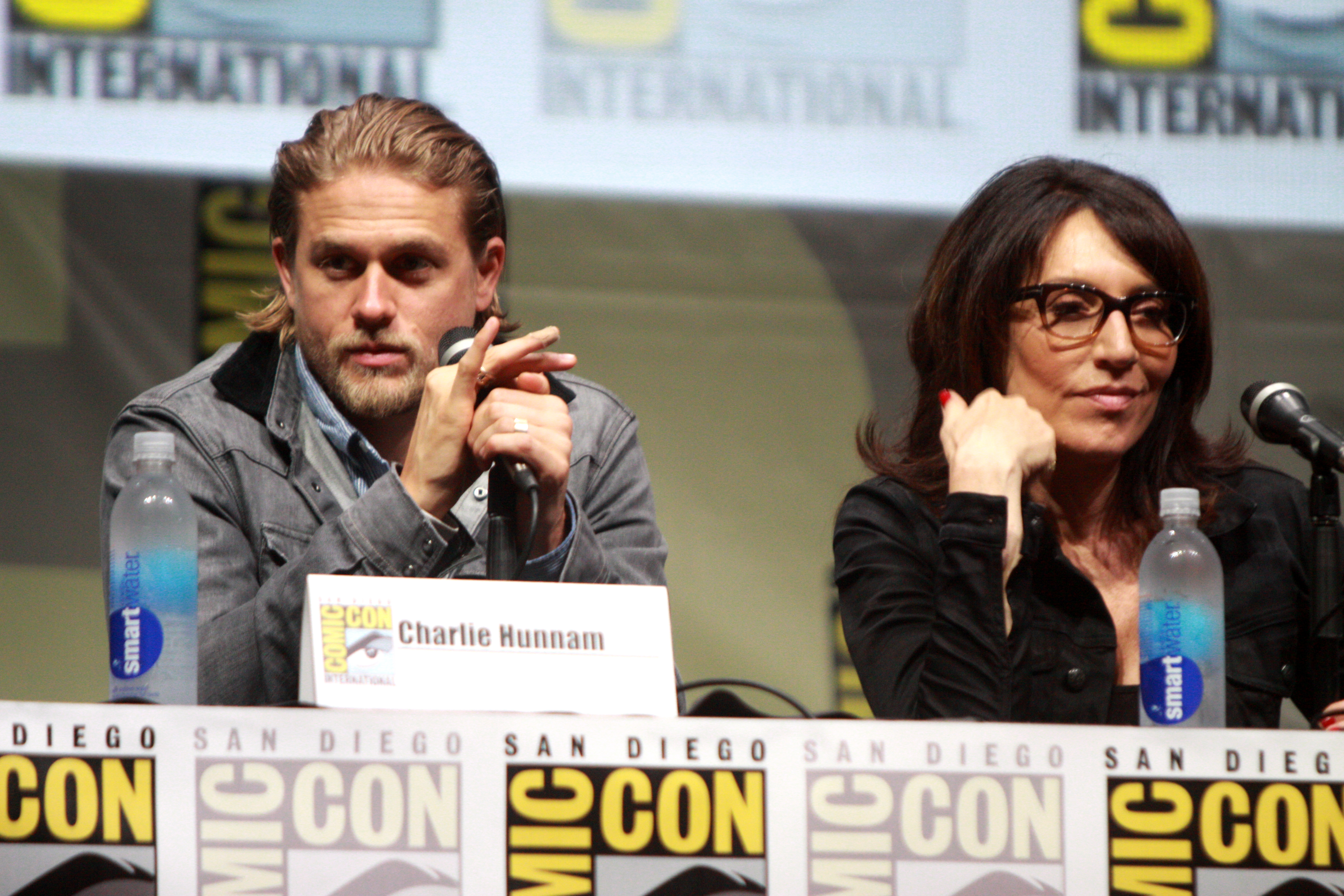 Charlie Hunnam and Katey Sagal speaking at the 2013 San Diego Comic Con International, for "Sons of Anarchy", at the San Diego Convention Center in San Diego, California.